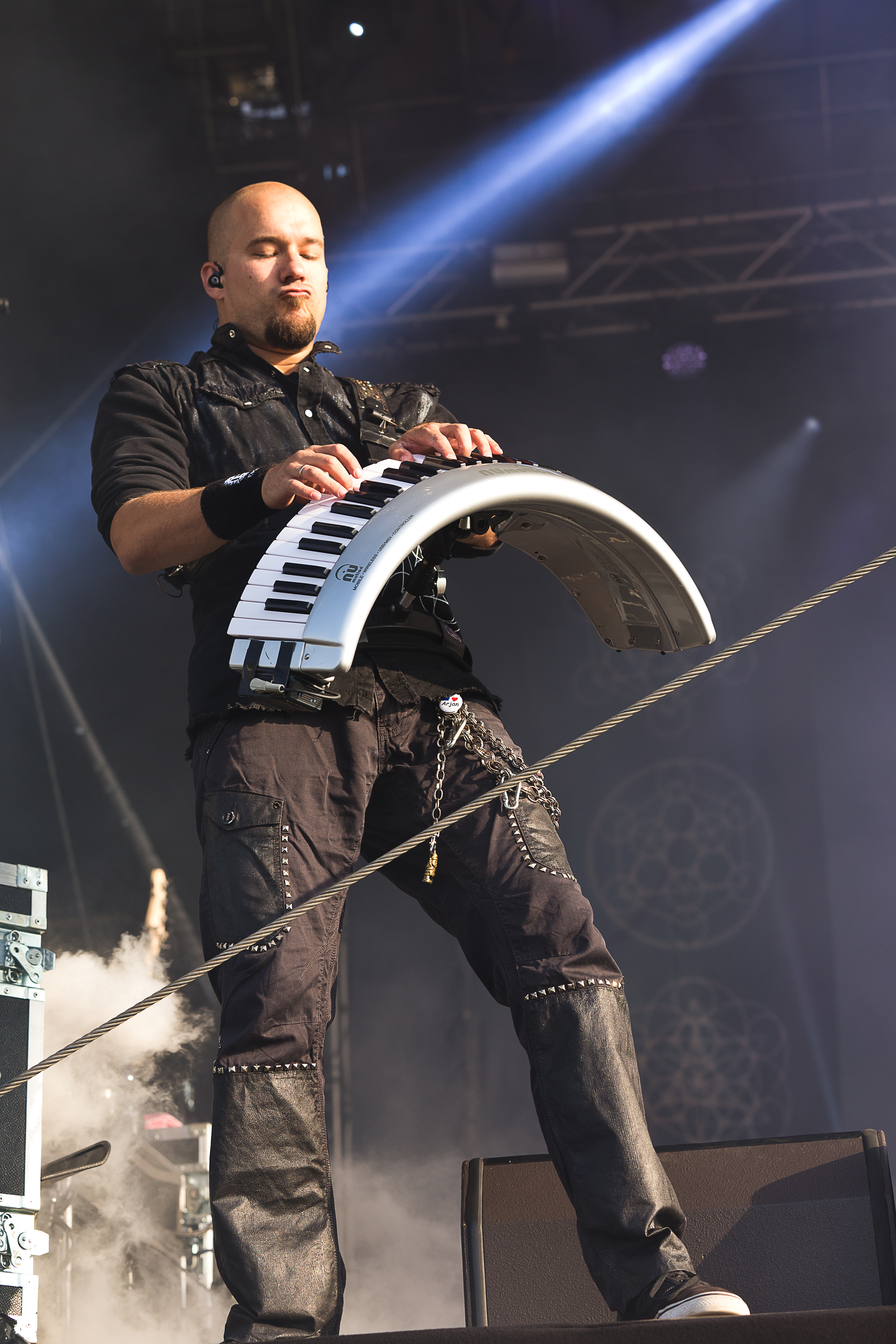 The Dutch symphonic metal band Epica at the Rockharz Open Air 2015 in Ballenstedt/Germany.